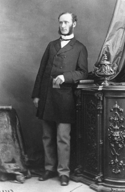 Photograph: Dr. William H. Hingston, Montreal, QC, 1867, by William Notman (1826-1891). Silver salts on paper mounted on paper - Albumen process, 8.5 x 5.6 cm